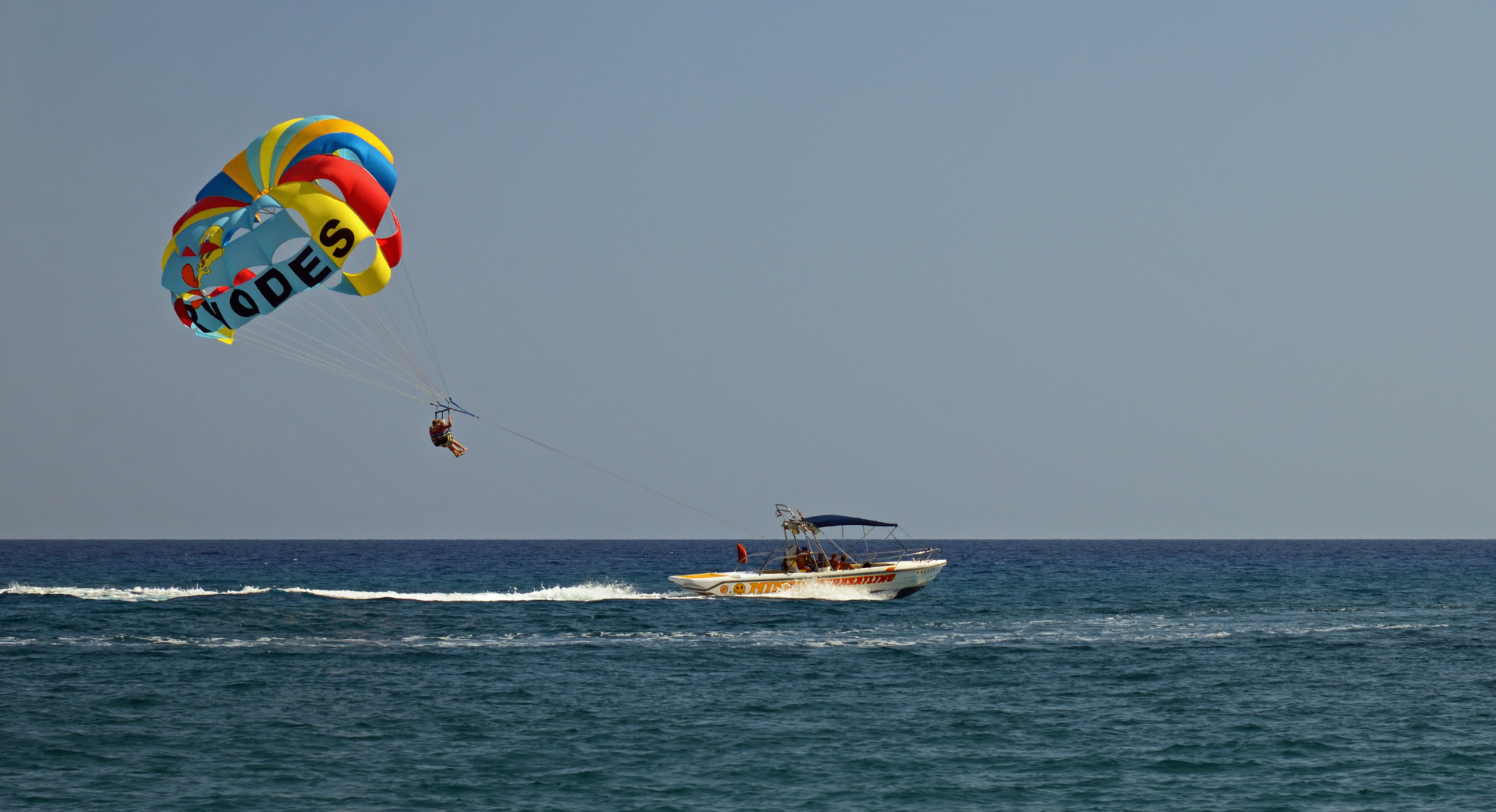 Parasailing in Prasonisi. Rhodes, Greece